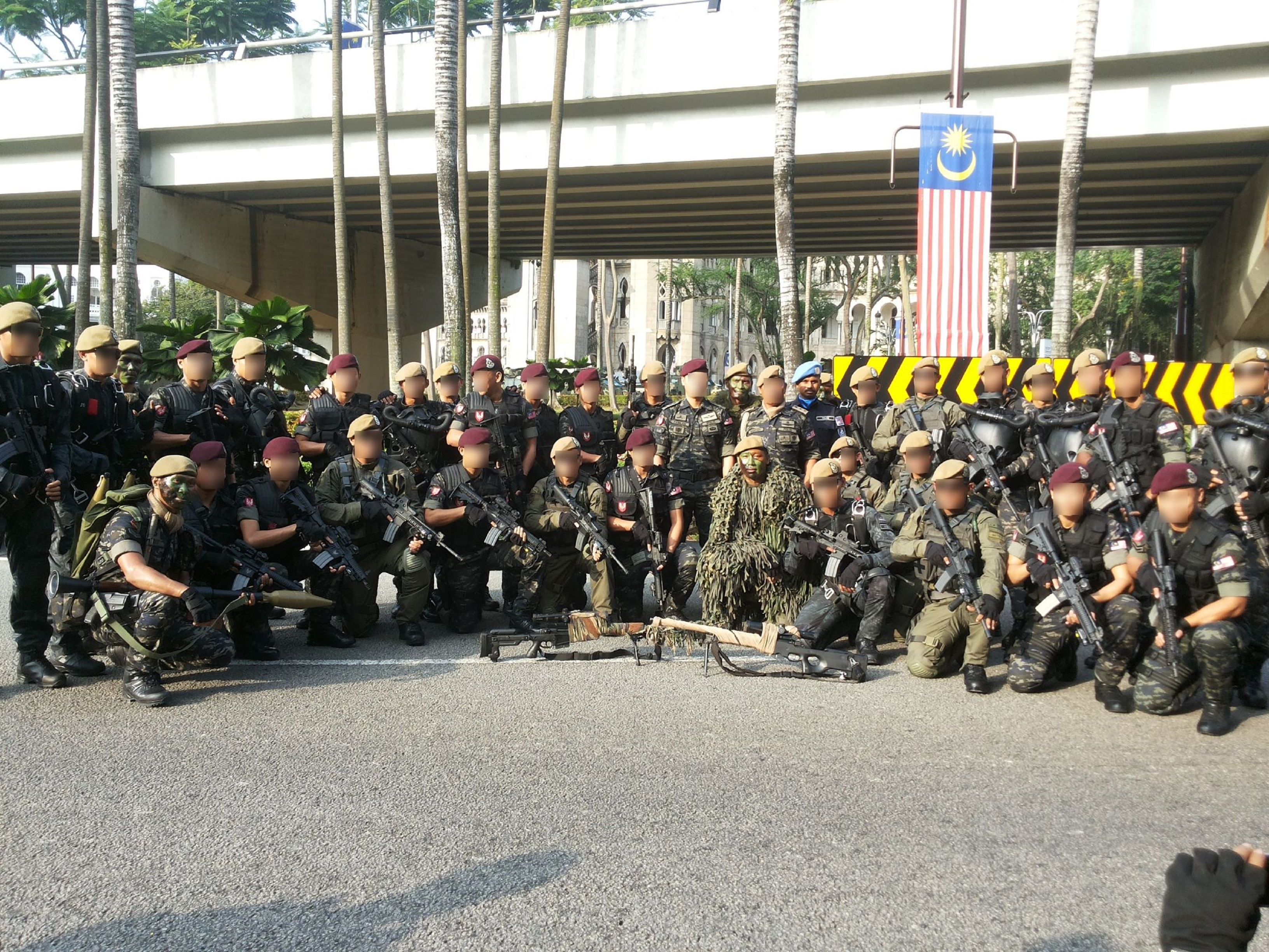 Members of 69 Commandos and Special Actions Unit (UTK) of Pasukan Gerakan Khas, Royal Malaysia Police with full armories.